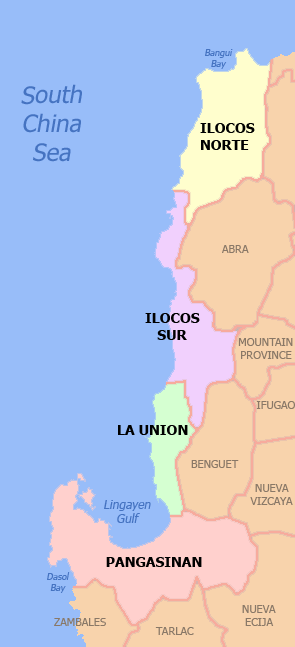 Map of the provinces of the Ilocos Region of the Philippines.